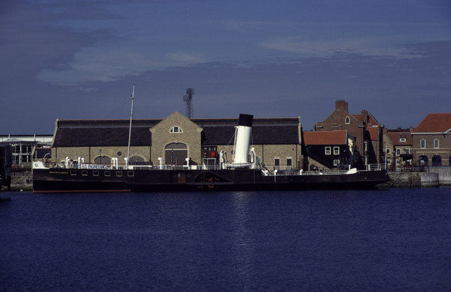 P S Wingfield Castle, Hartlepool Former Humber paddle ferry now on display at Hartlepool. Was freshly out of the dry dock. The historic Jackson's Dock is well worth a visit with Wingfield Castle, Trincomalee and a couple of museums.